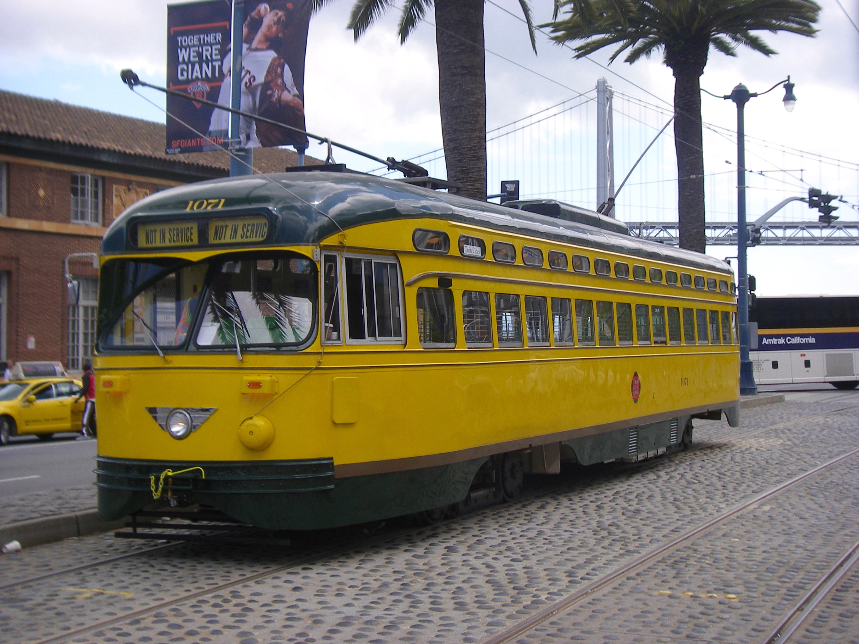 PCC car 1071 of the F Market & Wharves heritage streetcar line in San Francisco. Muni acquired this 1947-built streetcar in 2004 from Newark, but the car was originally purchased new by the Twin City Rapid Transit Company, of Minneapolis (who sold it to Newark in 1954), and had been No. 362 in TCRT's fleet. When restored for F-Line service it was repainted back into its original color scheme, the livery of Twin City Rapid Transit.